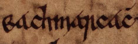 An excerpt from folio 17r of Oxford Bodleian Library MS Rawlinson B 488 (the Annals of Tigernach). The excerpt concerns Echmarcach mac Ragnaill (died 1064/1065).